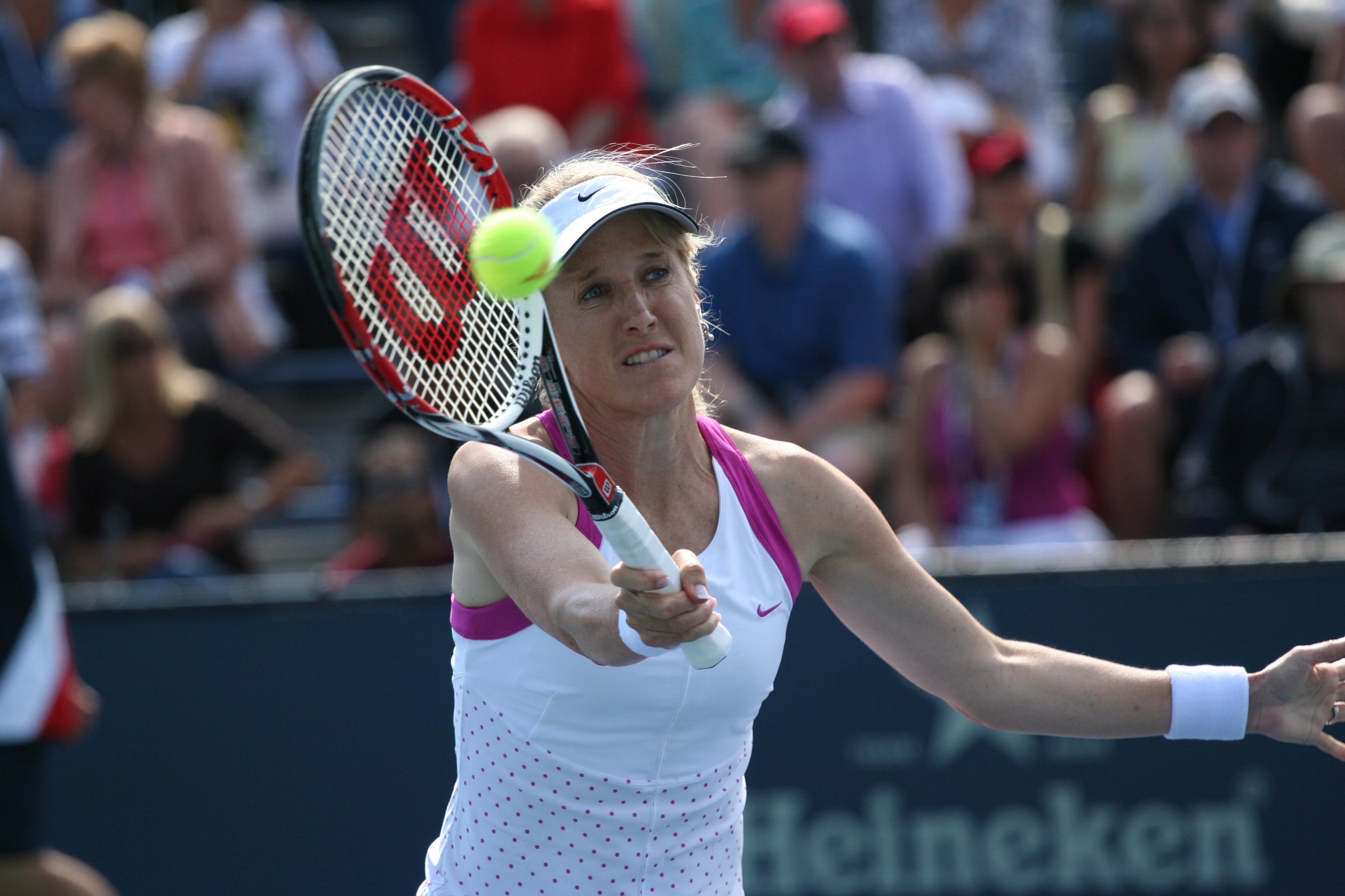 U.S. Open Champions Team Tennis Wednesday, Sept. 9, 2009